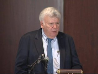 Paul Dickson giving a talk at the Library of Congress on his book "The Dickson Baseball Dictionary" in 2009. Screen grab from the video.